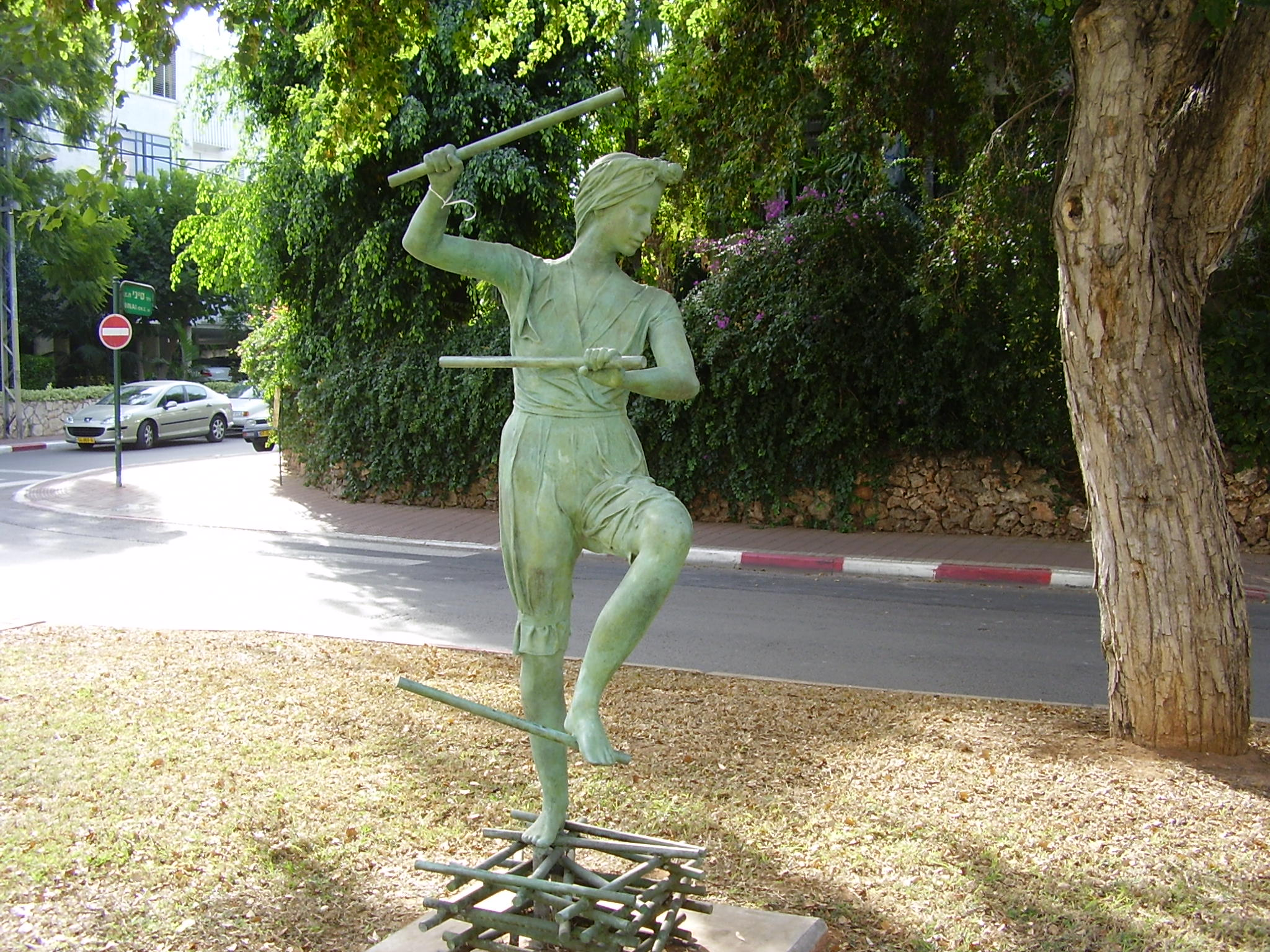 Woman on rungs by Ofra Zimbalista, in Ramat Hasharon